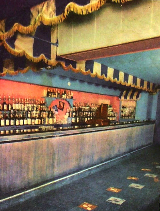 Photo of the bar at Birdland from a postcard.